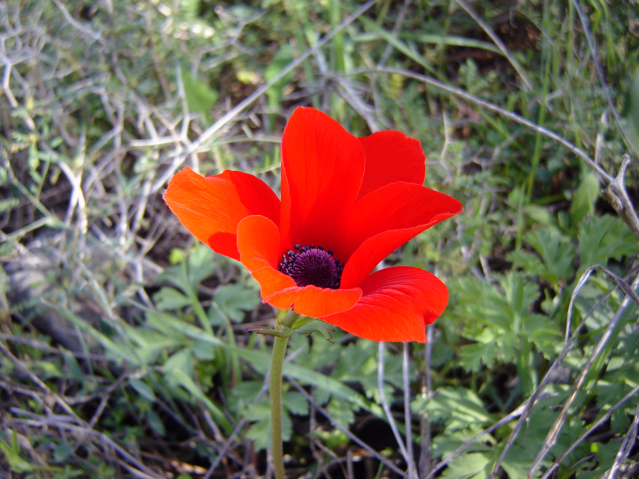 one of wild flowers of Bil'in , a village of Palestine